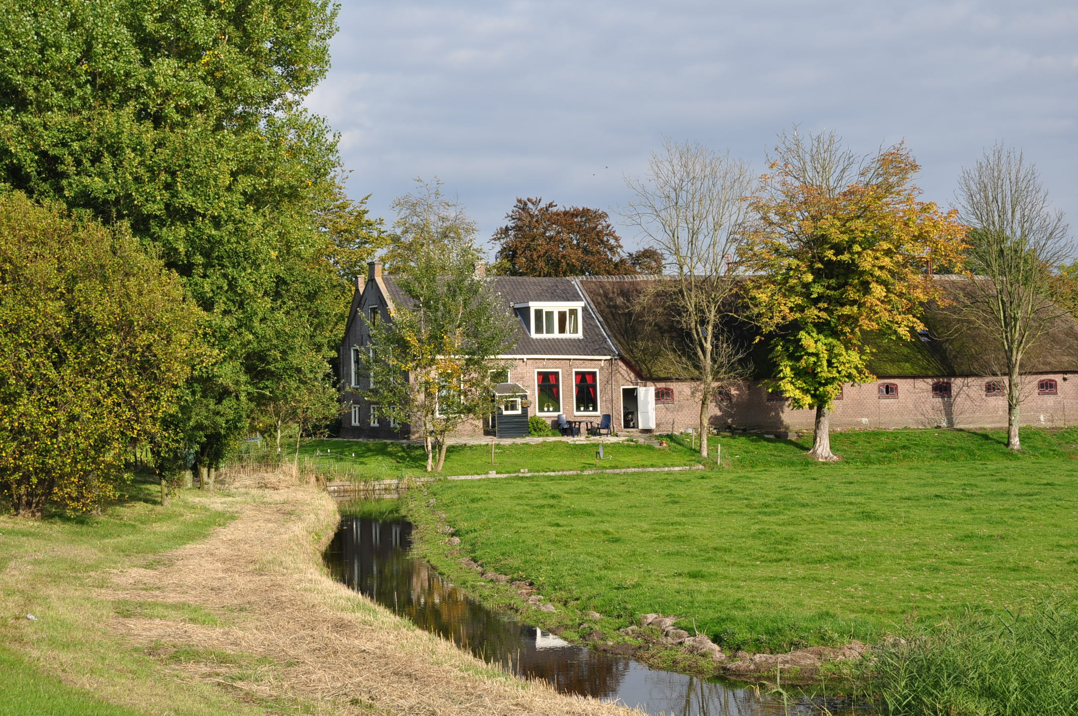 Strandvliet (also spelled as "Strandvlied") is a farm on the river Amstel, in the Polder Groot-Duivendrecht, very close to Amsterdam. It is currently in use as a small hotel called "Bed en Bubbels Strandvliet" (municipality Ouder-Amstel, Province North Holland, Netherlands).